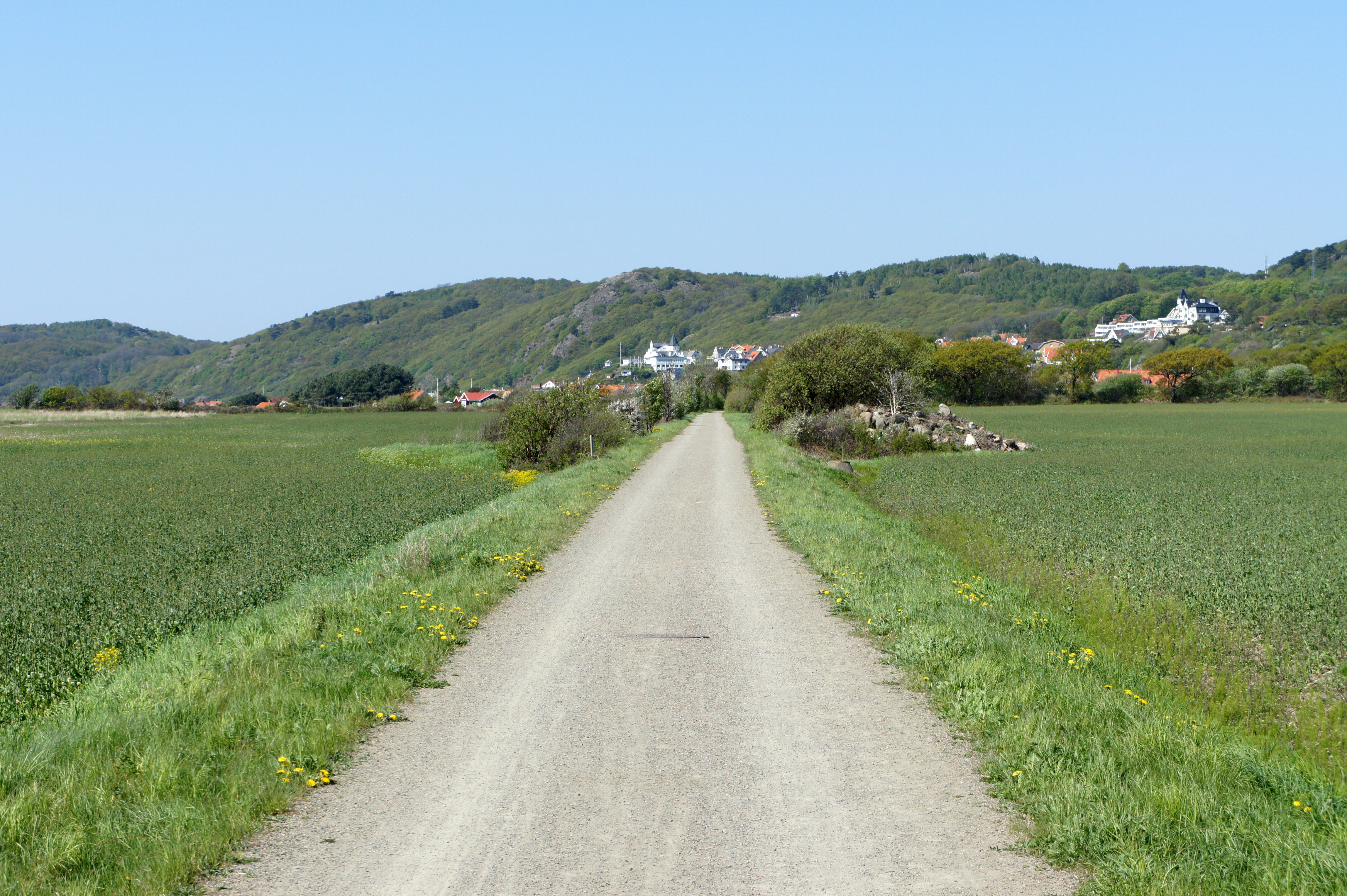 The railway embankment which remains of Möllebanan, Sweden